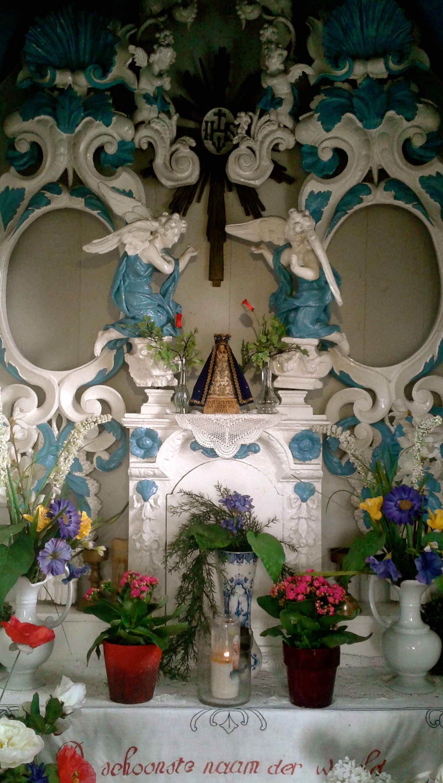 interieur boskapel (Kontich) in het Lang Bos (kapellekensbos) in Kontich (1760)